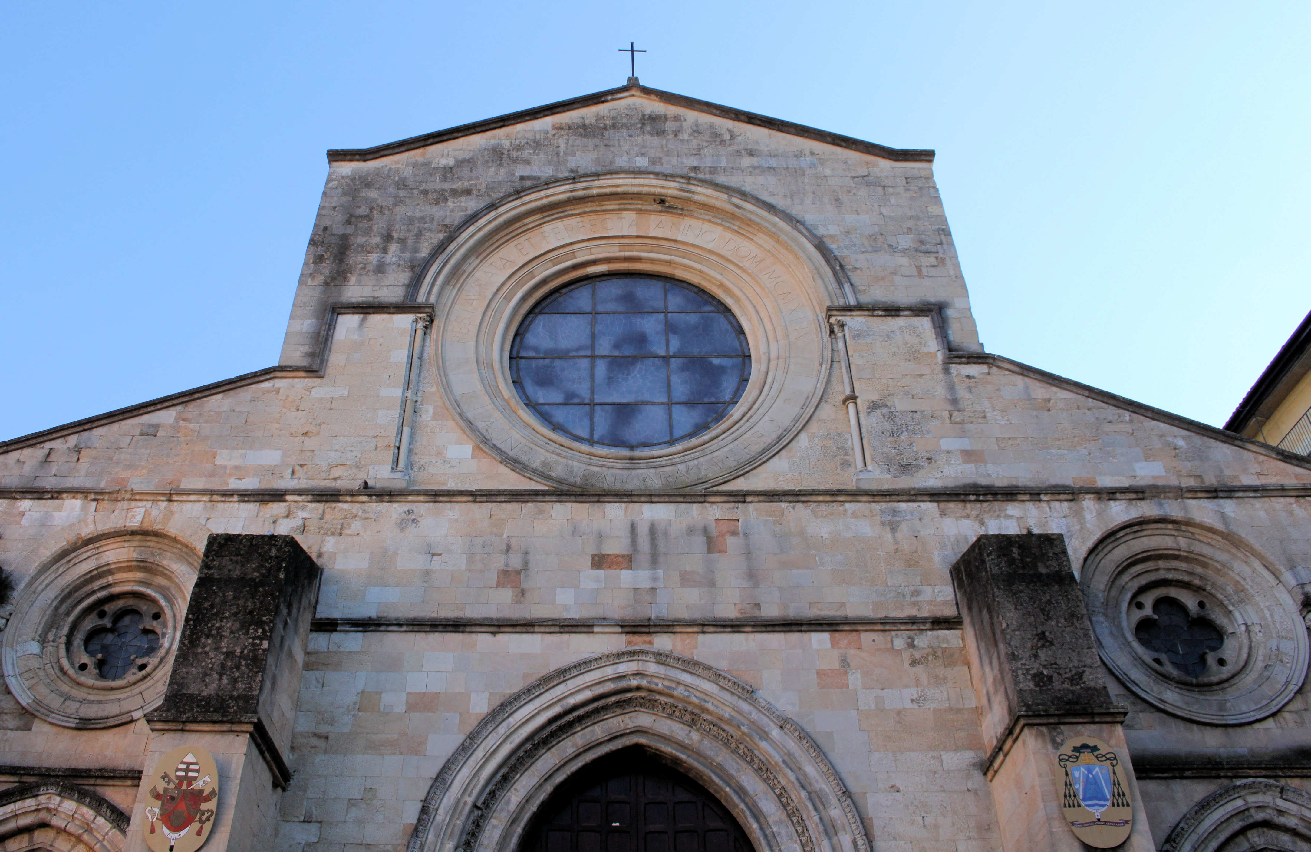 Cattedrale di Santa Maria Assunta